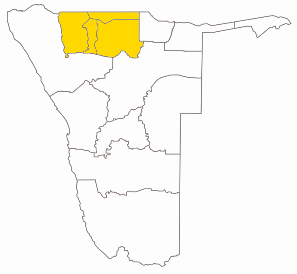 Four O Regions in Namibia